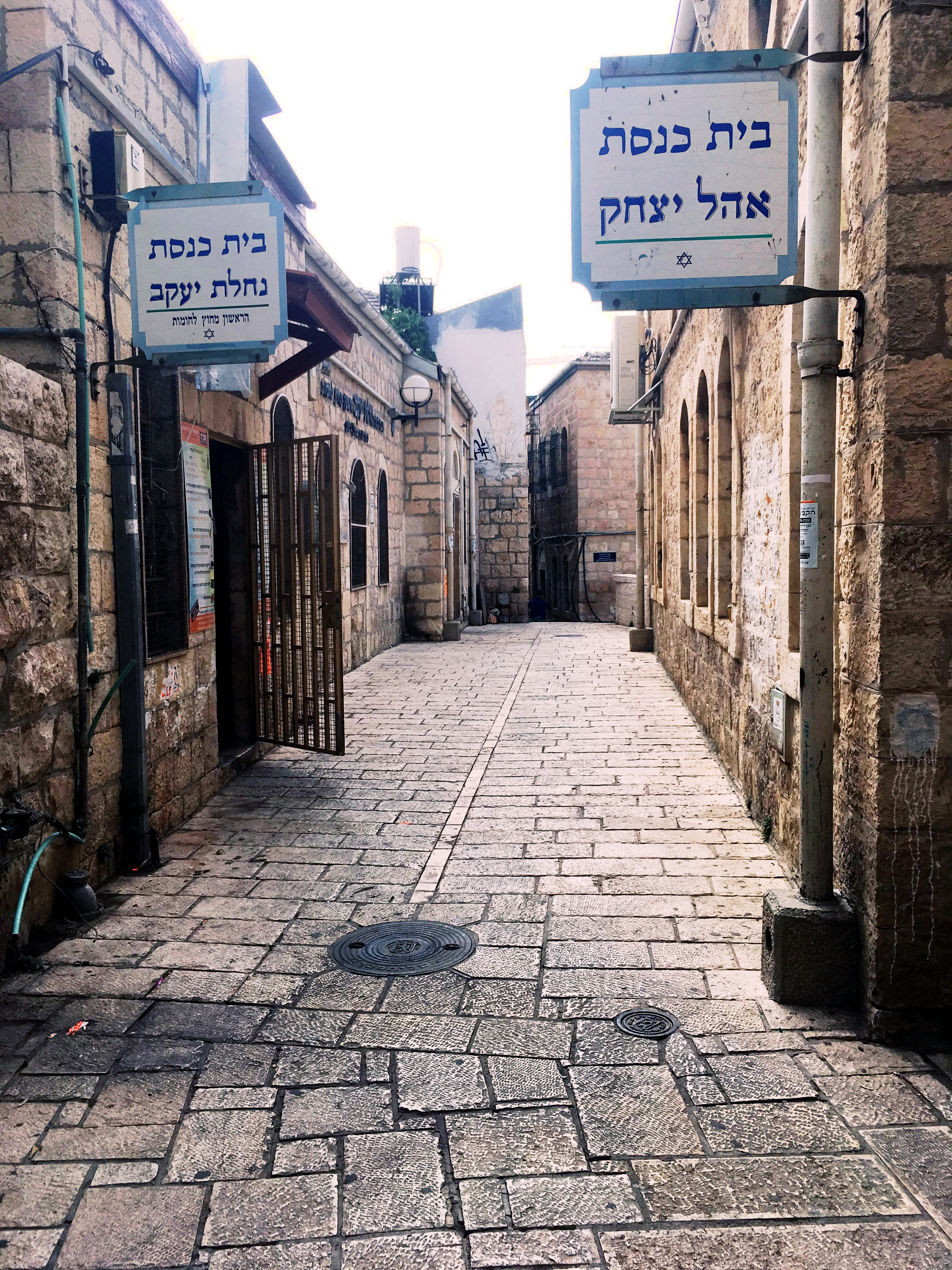 Jerusalem, ma'alot nakhalat shiv'a street, The Twin Synagogues of Nahalat Shiva - on the left, Ashkenazi Nahalat Yaakov synagogue, 1873, THE FIRST SYNAGOGUE OUTSIDE THE OLD CITY - and almost opposite, the Sephardi Ohel Yitzchak Synagogue, with distinct old-world charm dating back to 1888